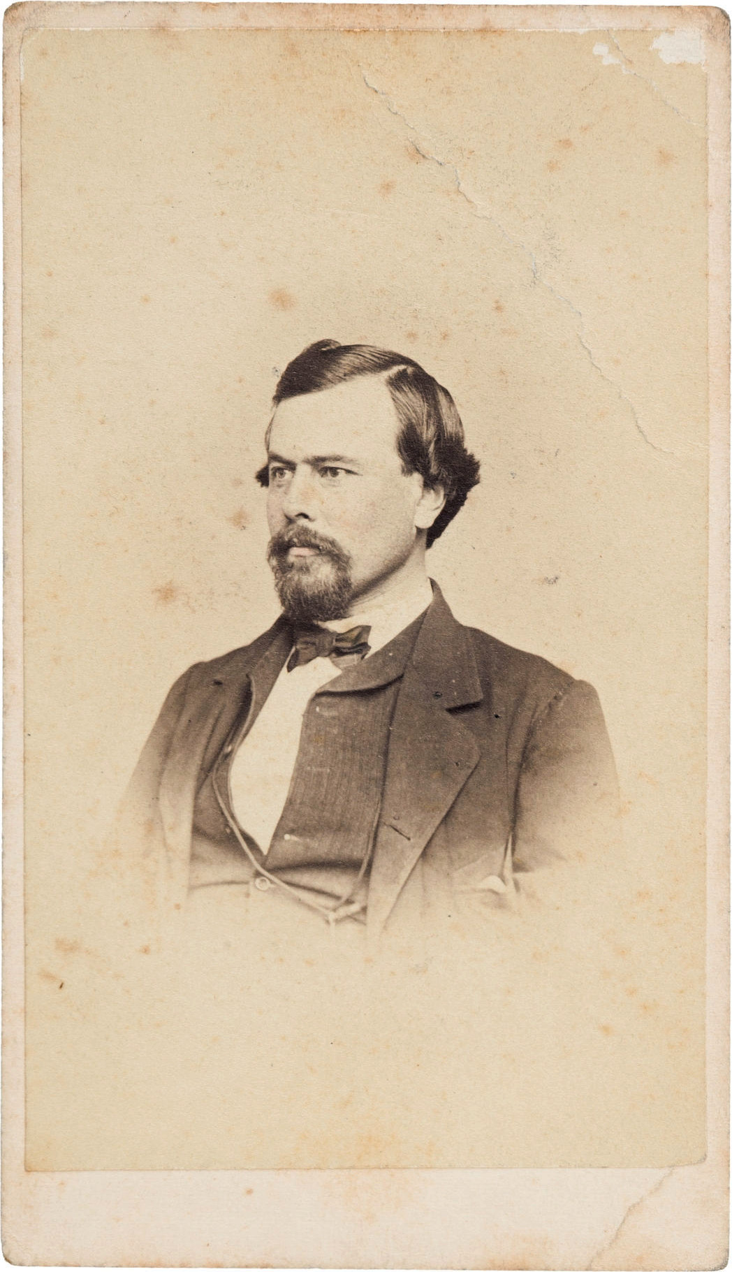 Carte de Visite portrait photograph of Stephen Hinsdale Weed